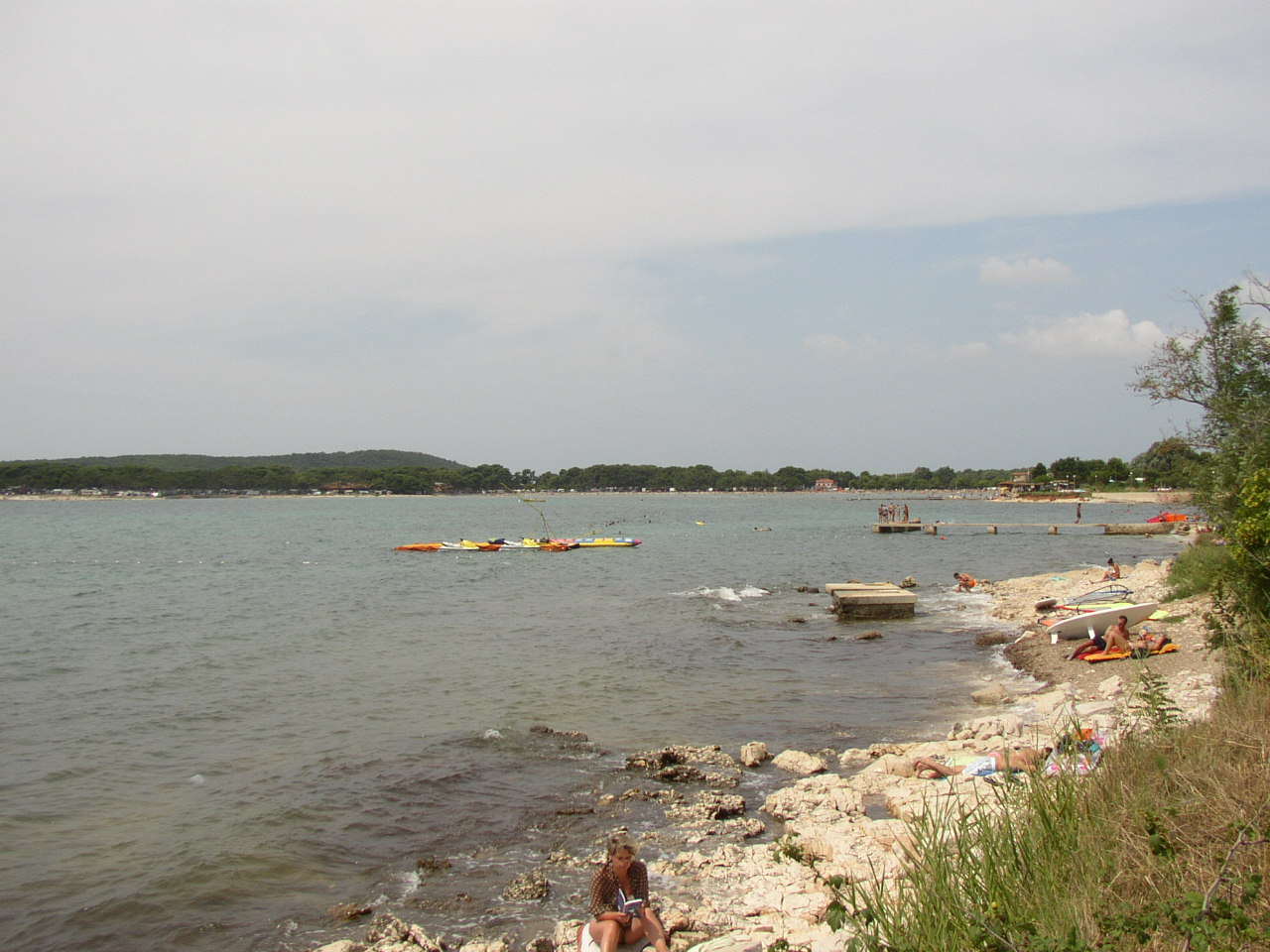 Bay of Medulin in Istria/Croatia